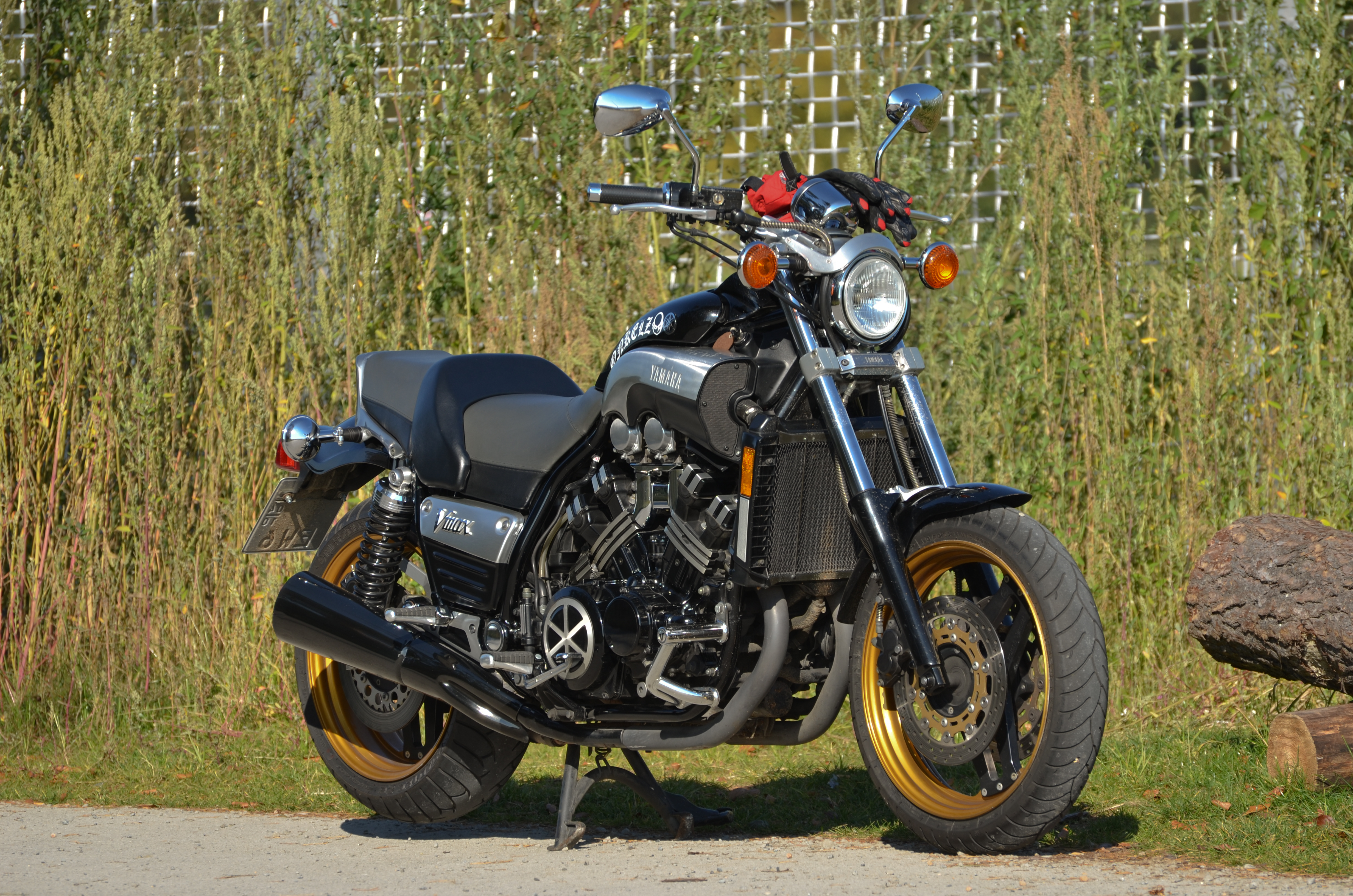 Yamaha Vmax (VMX 1200) motorbike, near airport Frankfurt, Germany